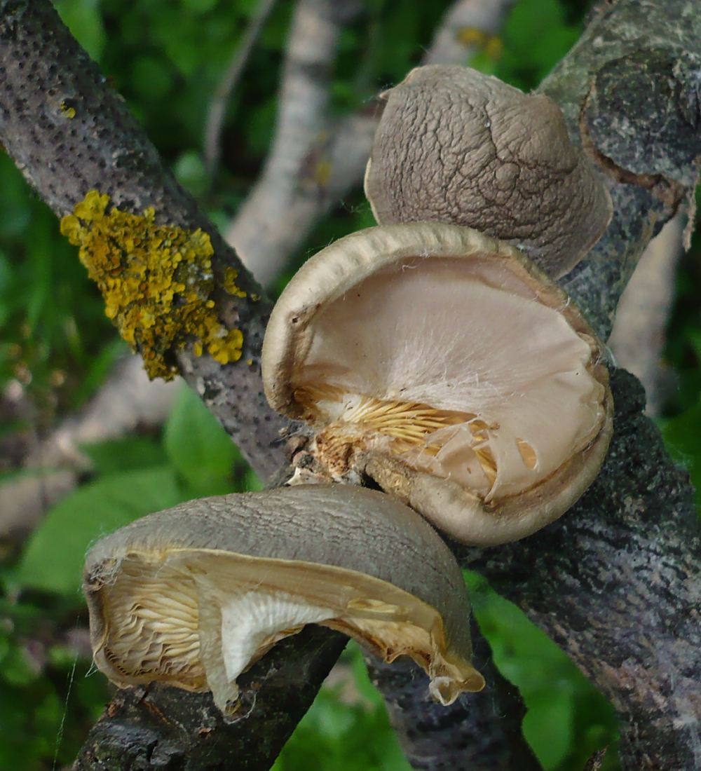 Pleurotus calyptratus Location: Untere Lobau, Vienna, Austria For more information about this, see the observation page at Mushroom Observer.